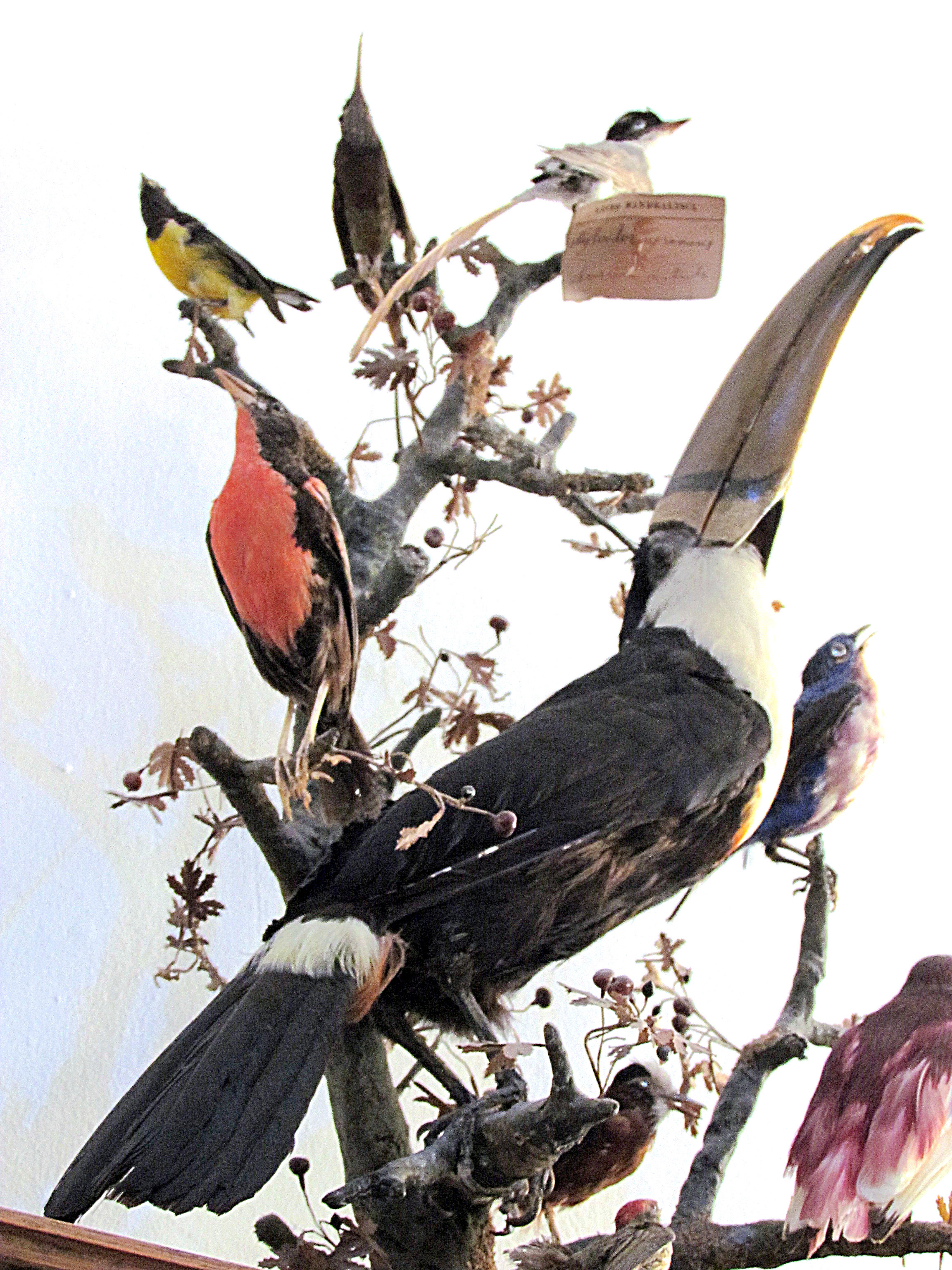 Part of ornithological collection.